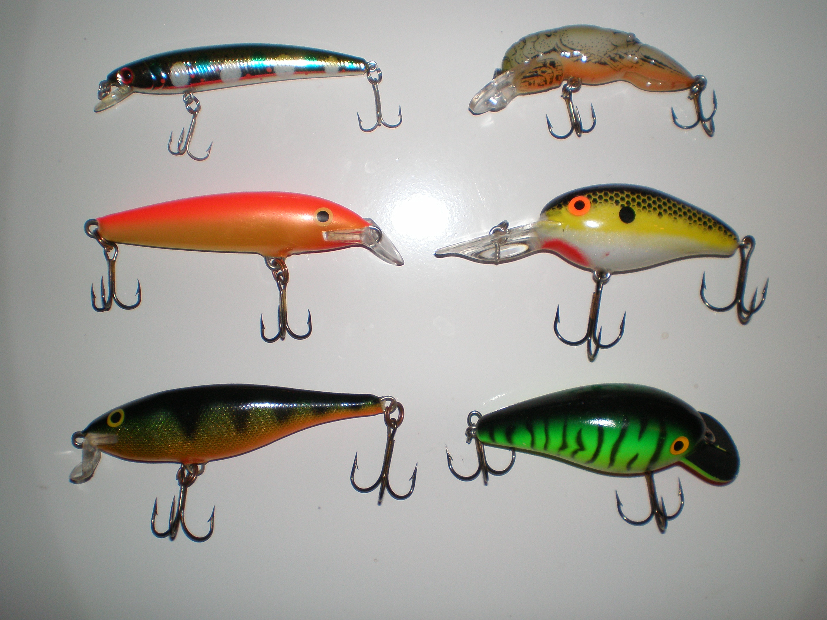 Assorted fishing lures